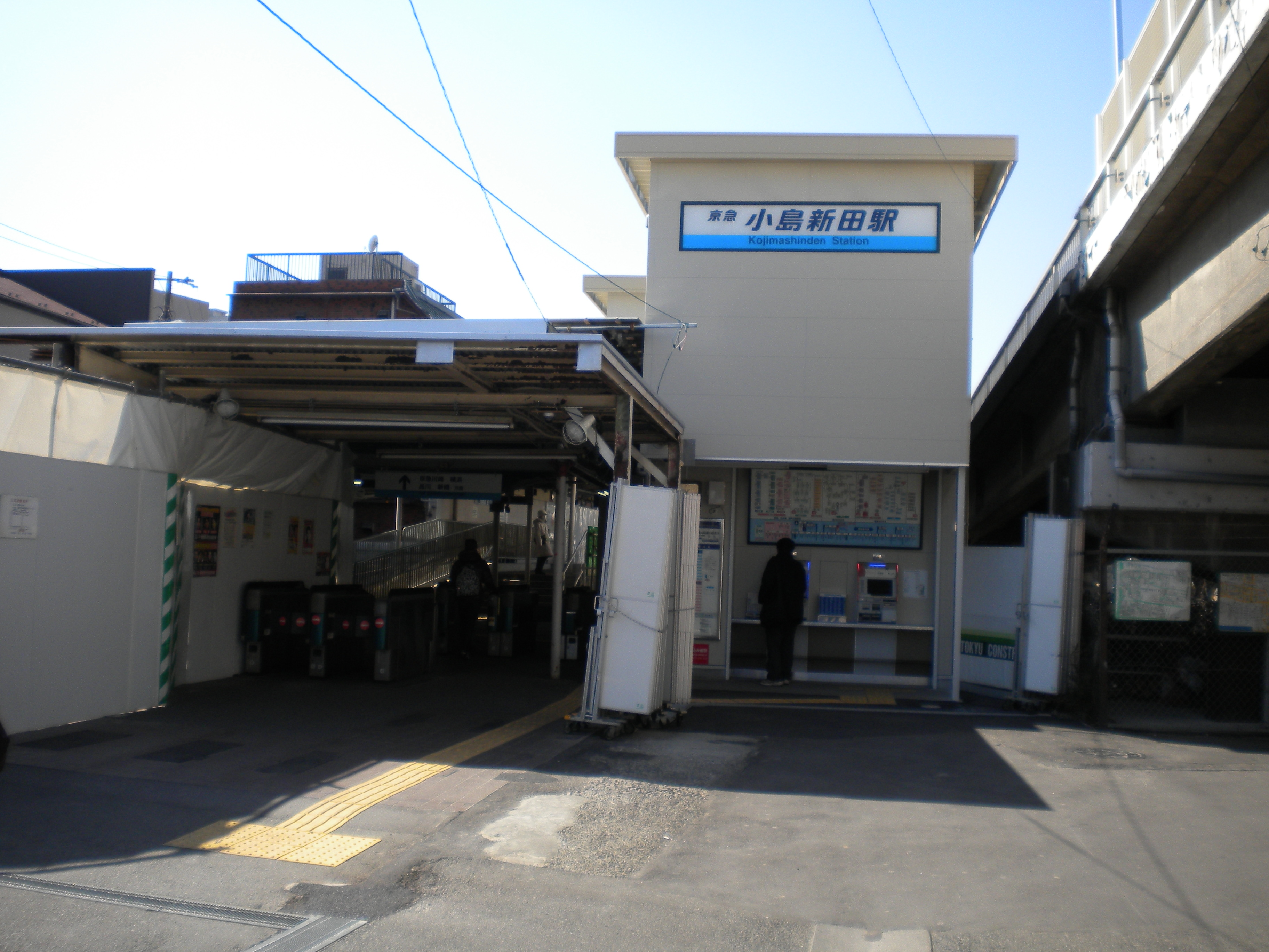 keikyu Kojimashinden Station